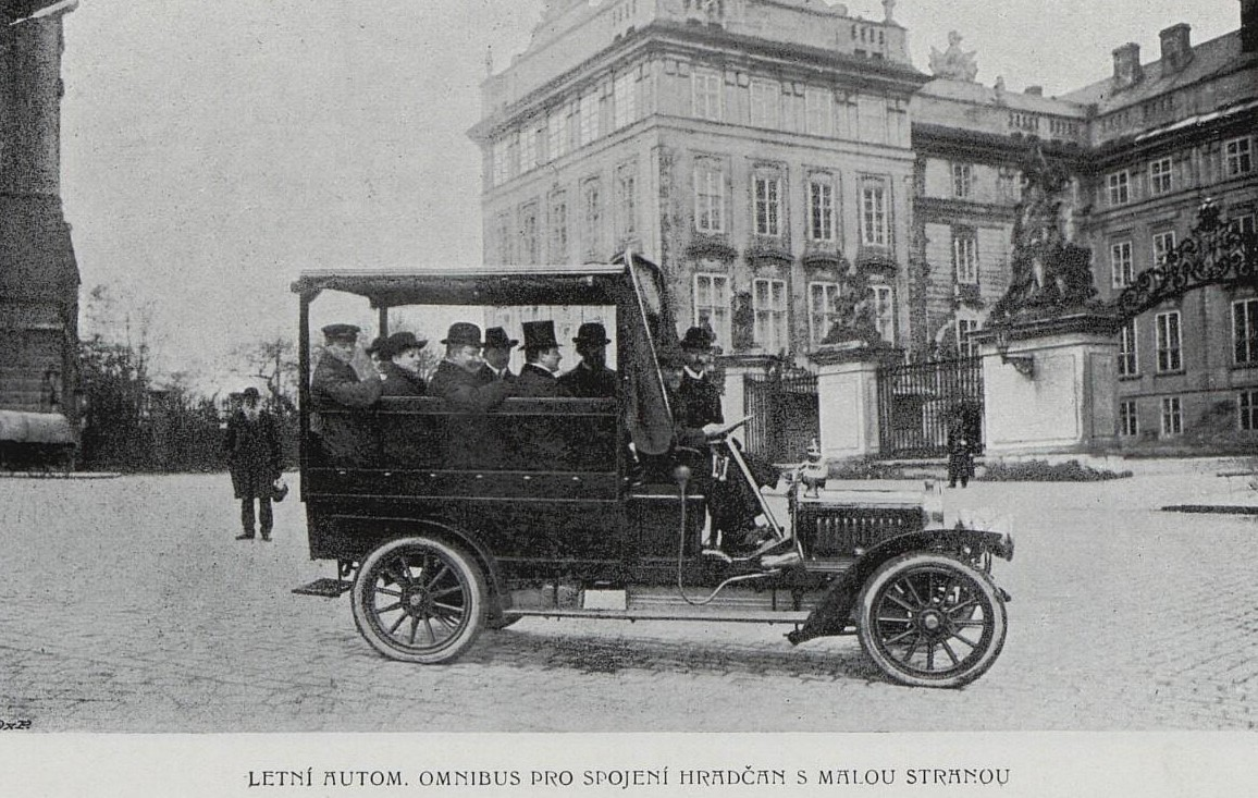 First bus line in Prague 1908